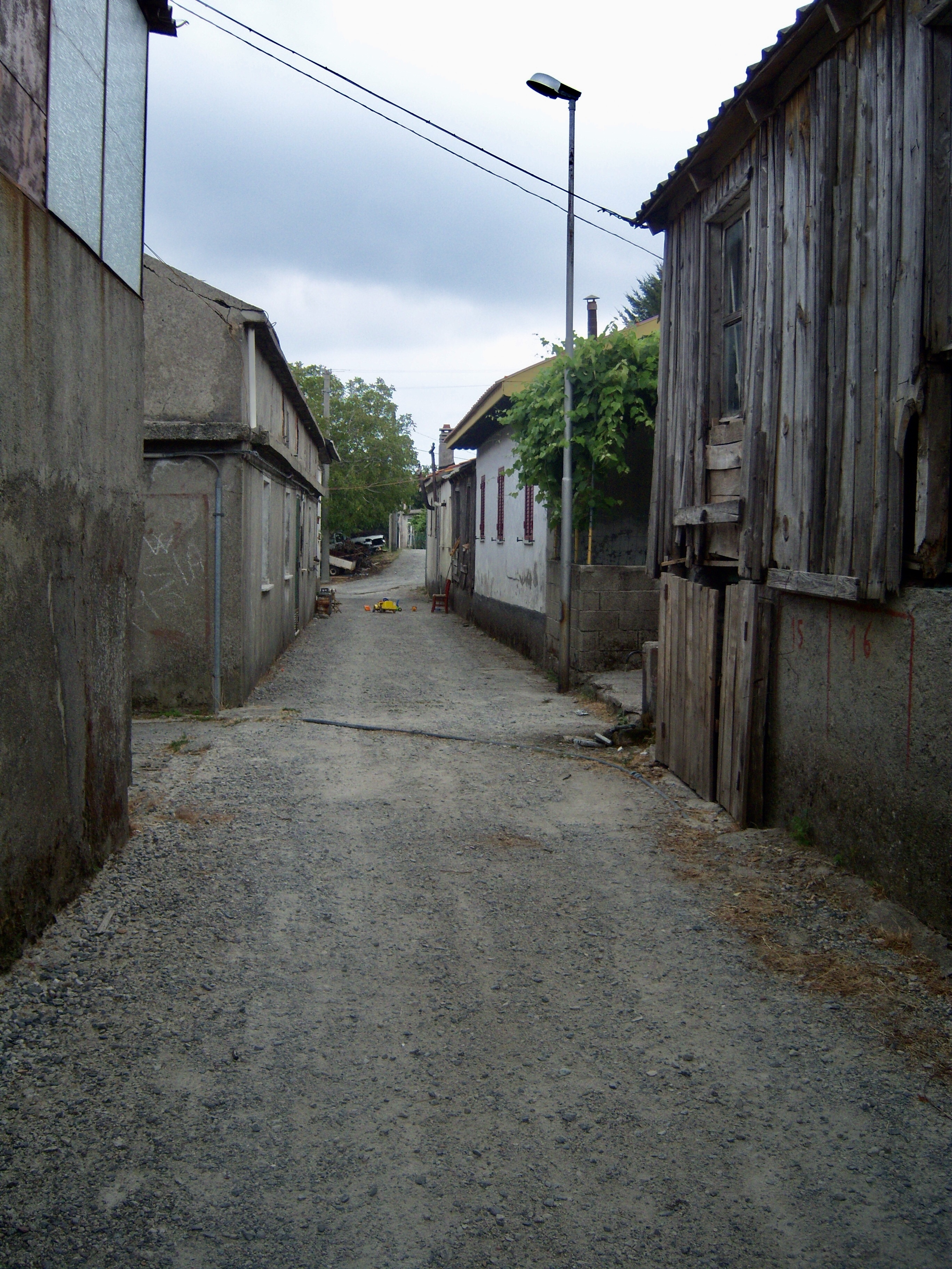 Ziia (Caulonia)